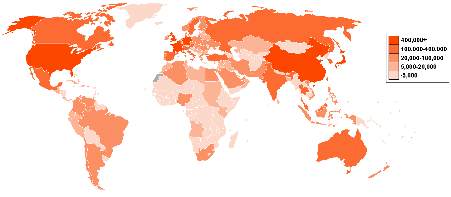 Imports in millions of dollars, as listed on CIA factbook accessed April 2006.